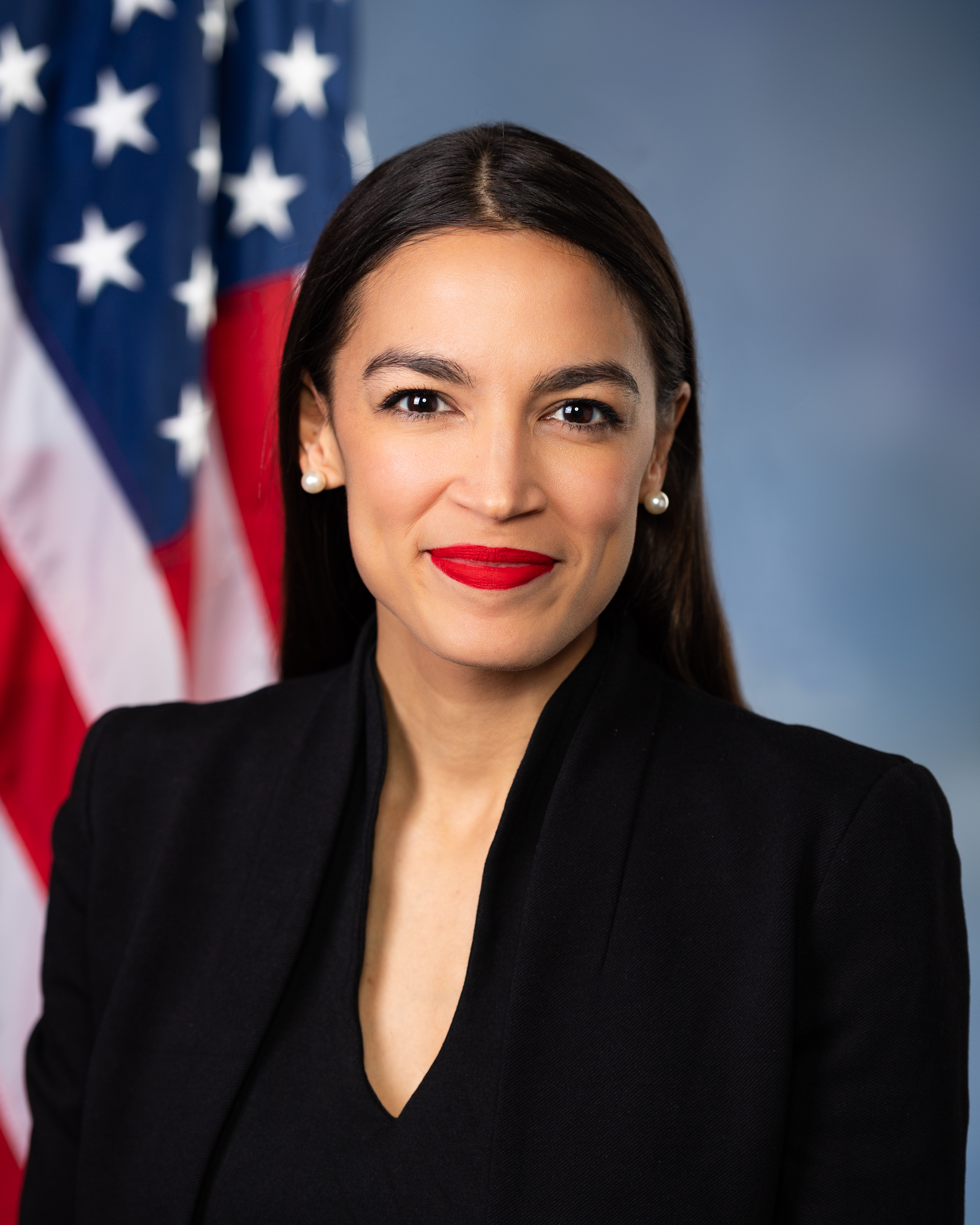 Photo of Rep. Alexandria Ocasio-Cortez (D-NY14)